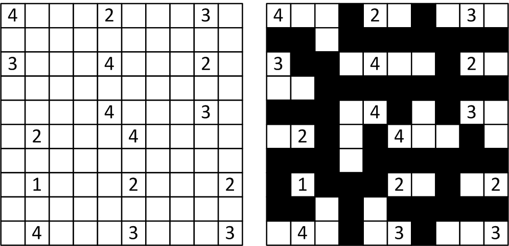 Nurikabe, puzzle Denden-Gusa